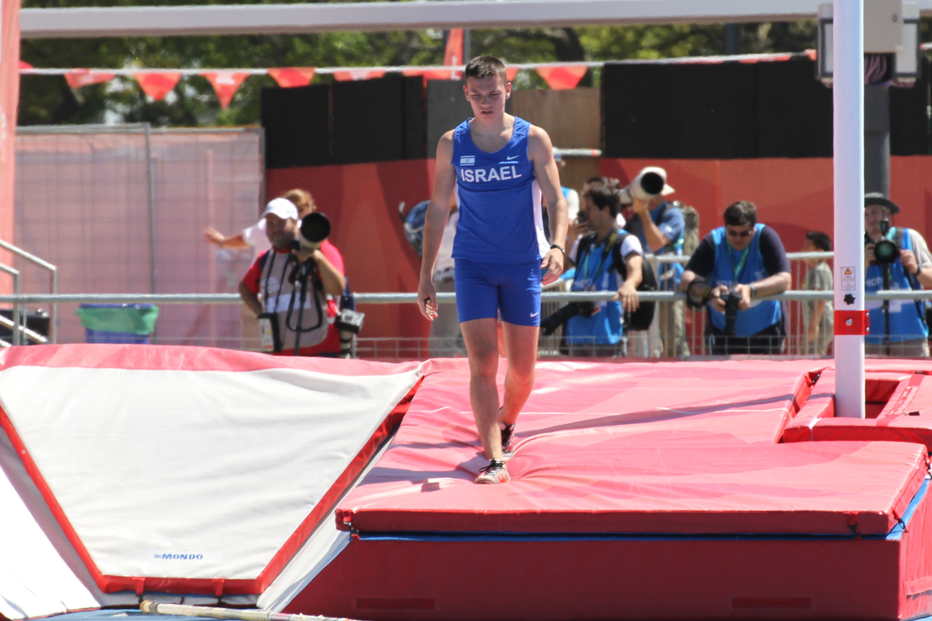 Pole Vault at the 2018 Summer Youth Olympics. Men's Stage 2